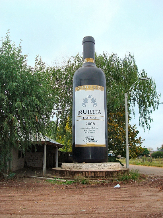 Carmelo is famous for its wineries. This huge bottle replica has become a favourite theme for tourist snapshots. Carmelo, Colonia Department, Uruguay.